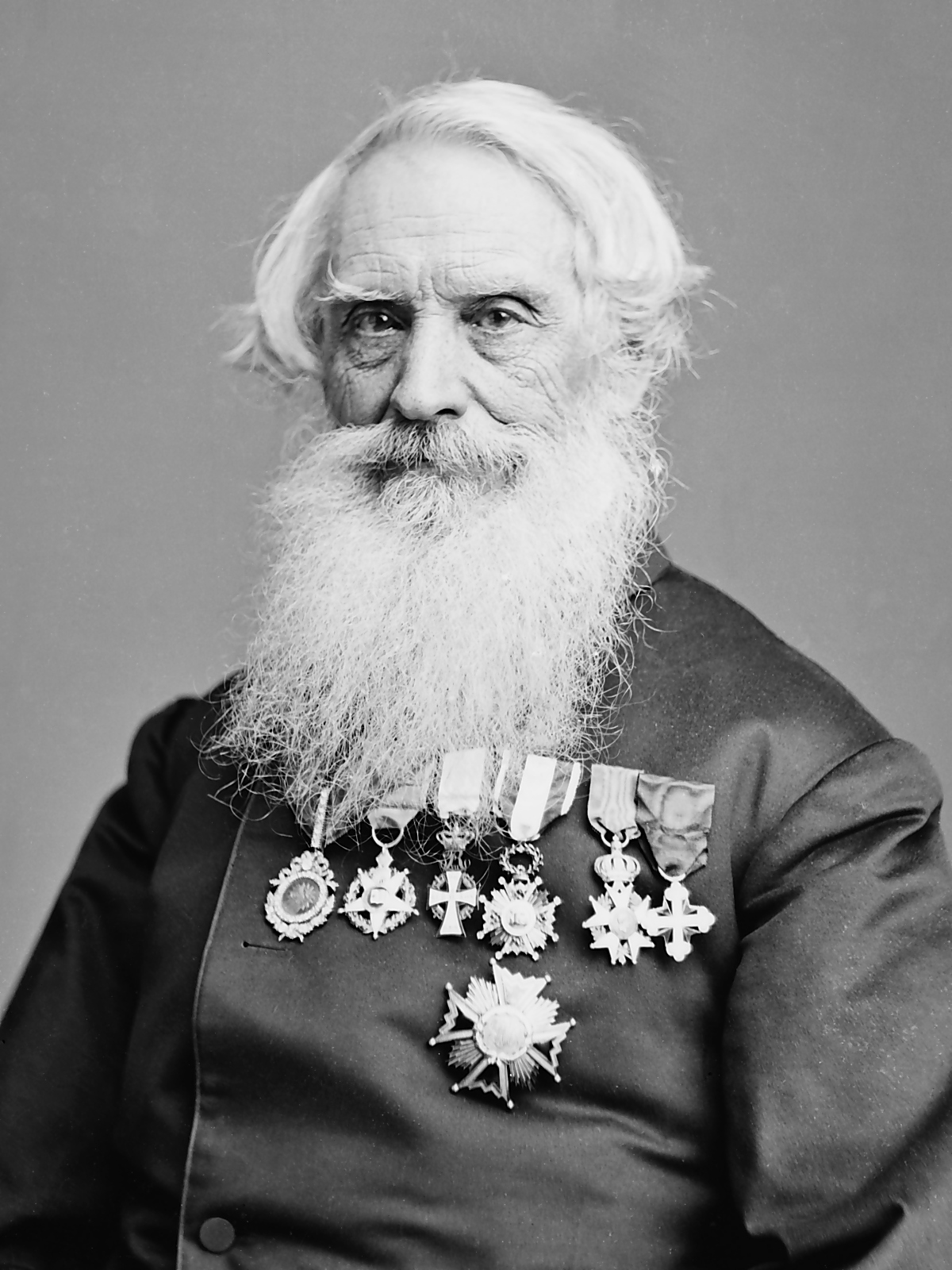 Samuel F. B. Morse (between 1865 and 1880) Photoportrait by Mathew Brady